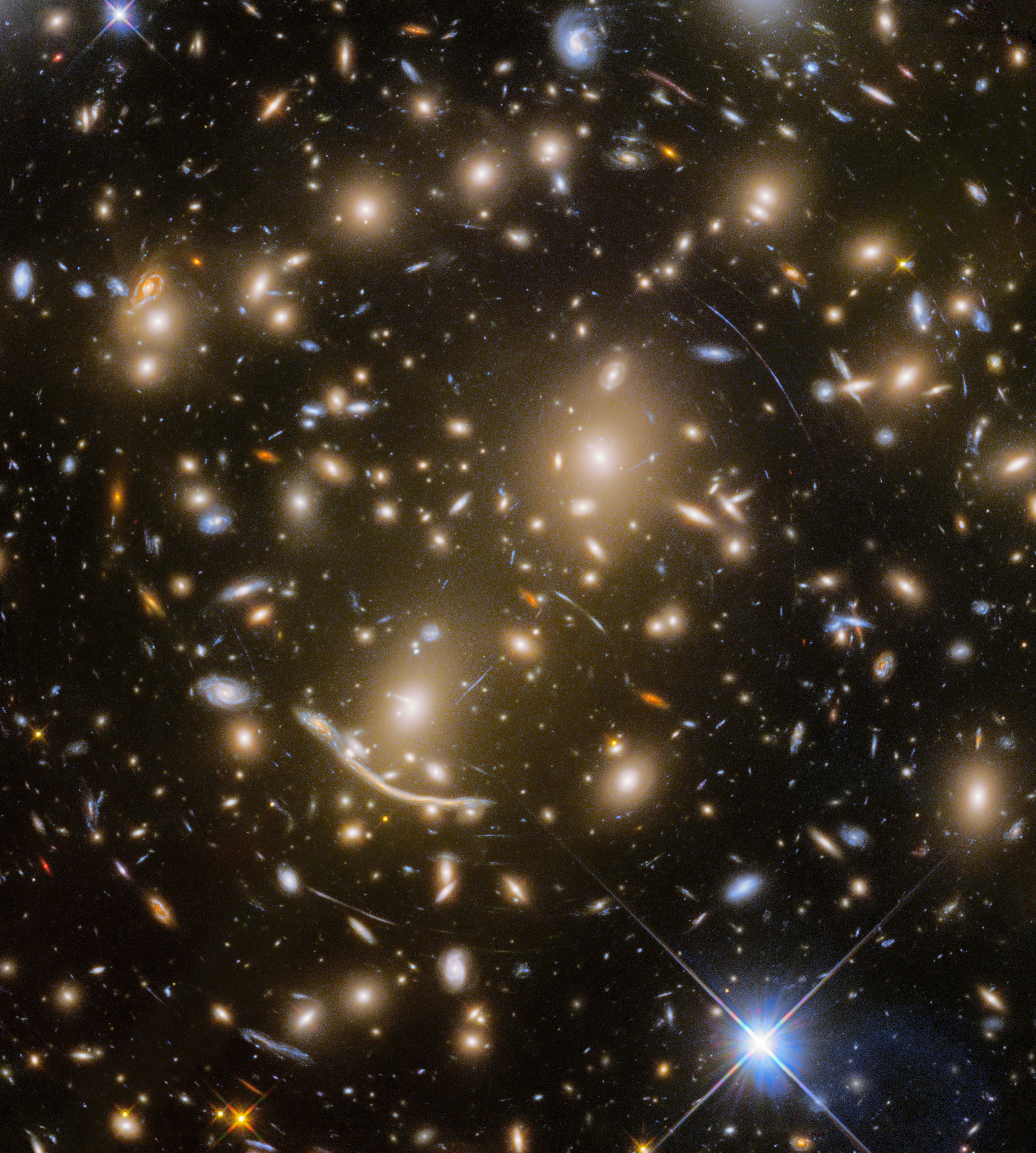 With the final observation of the distant galaxy cluster Abell 370 — some five billion light-years away — the Frontier Fields program came to an end. Abell 370 is one of the very first galaxy clusters in which astronomers observed the phenomenon of gravitational lensing, the warping of spacetime by the cluster’s gravitational field that distorts the light from galaxies lying far behind it. This manifests as arcs and streaks in the picture, which are the stretched images of background galaxies.